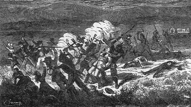 Etching of the Mountain Meadows Massacre.